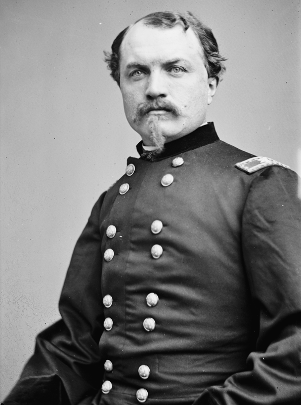 Gen. Wm. W. Averell USA